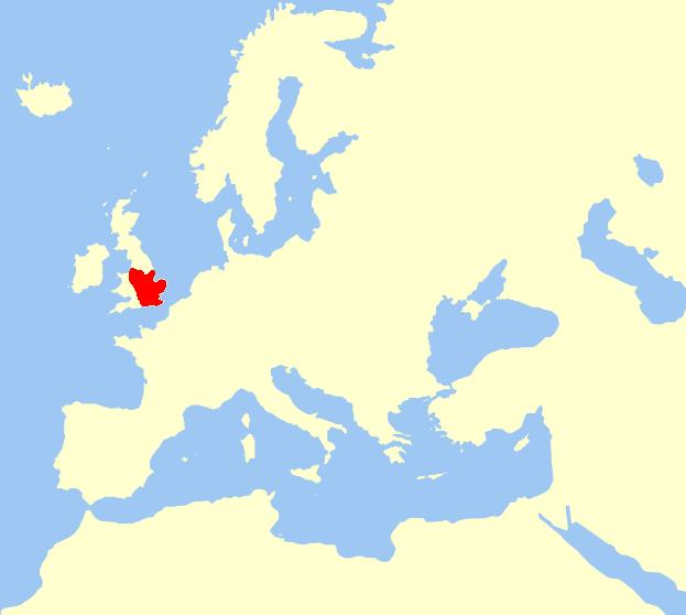 This is a map showing the area of development of the daisy belle hybrid chicken breed.